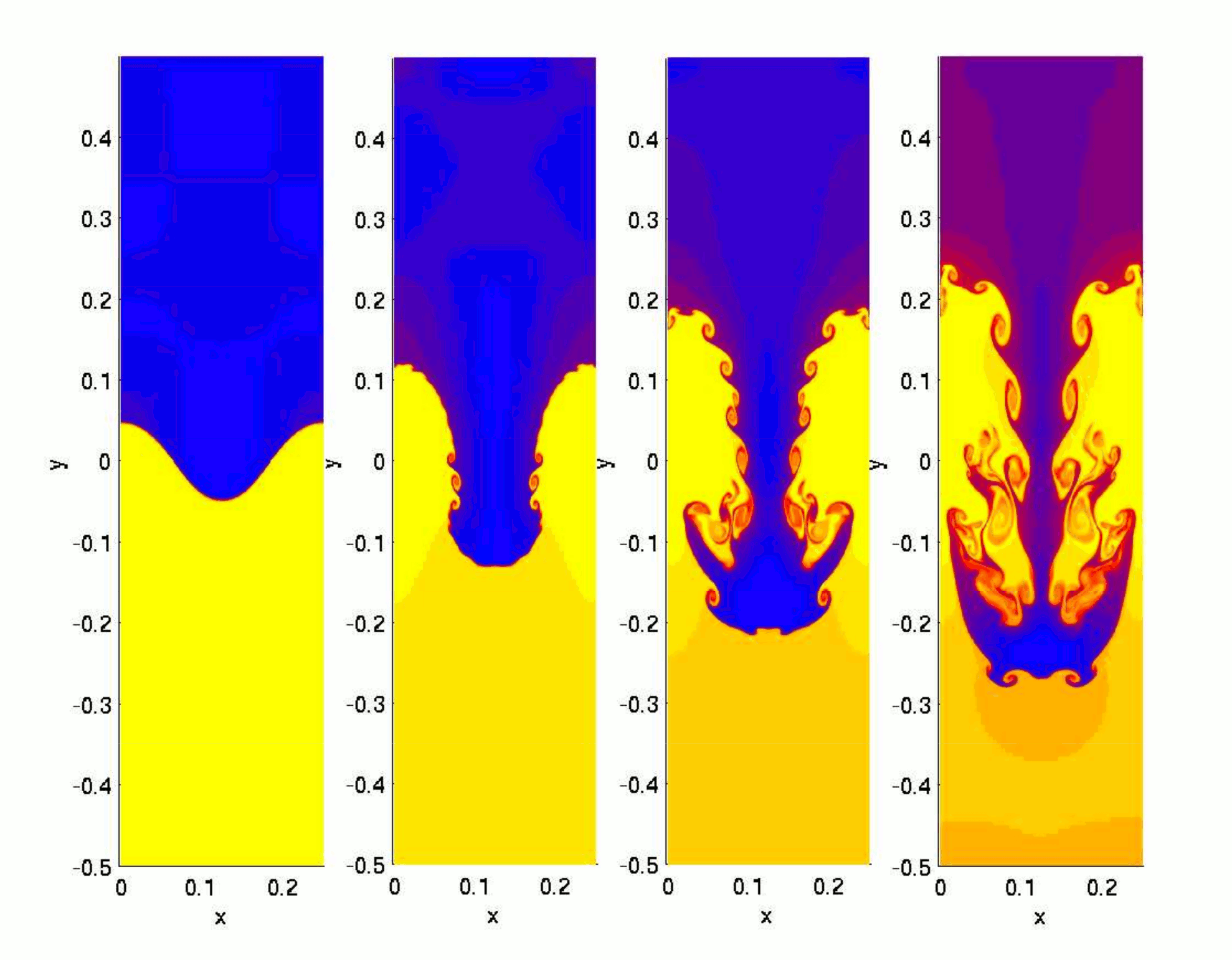 Hydrodynamic simulation of the Rayleigh–Taylor instability. Government source: Shengtai Li, Hui Li [1]